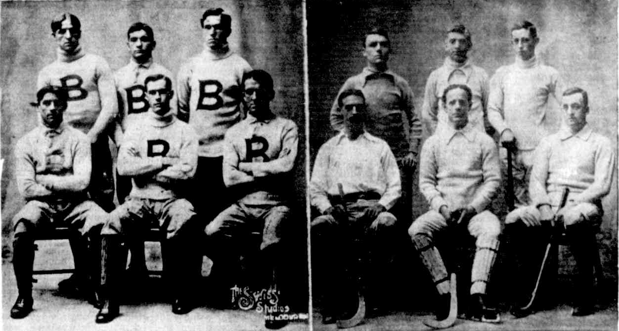 First ever ice hockey game in Australia June 17 1906